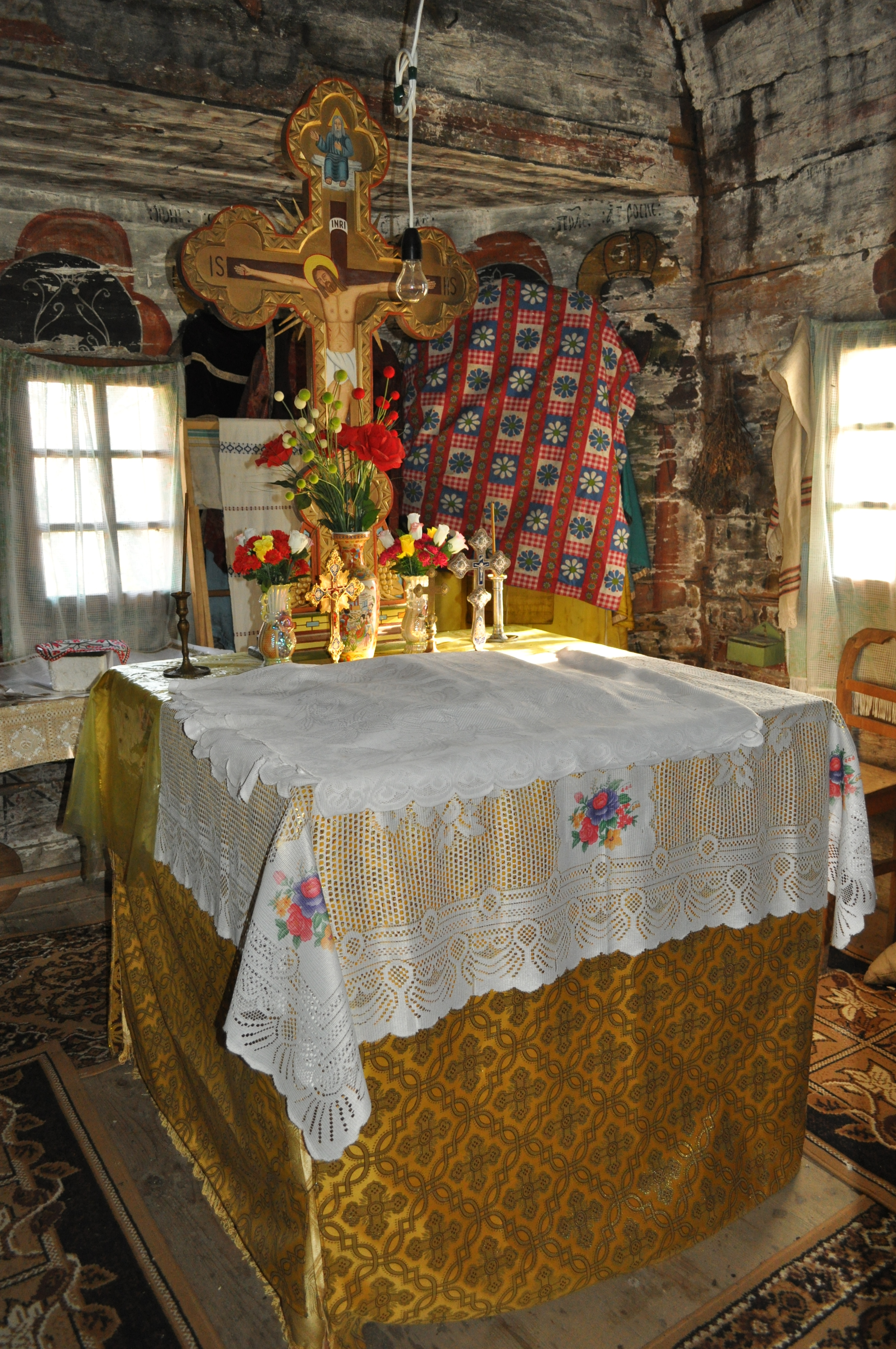 Wooden church in Dealu Geoagiului, Alba county